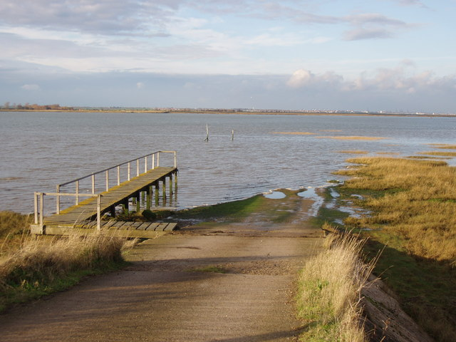 The "road" across the Wade to Horsey Island. This is only passable at low tide. The cranes in Felixtstowe port can be seen in the distance. This area, the Walton Backwaters, was the setting for the book Secret Water by Arthur Ransome.